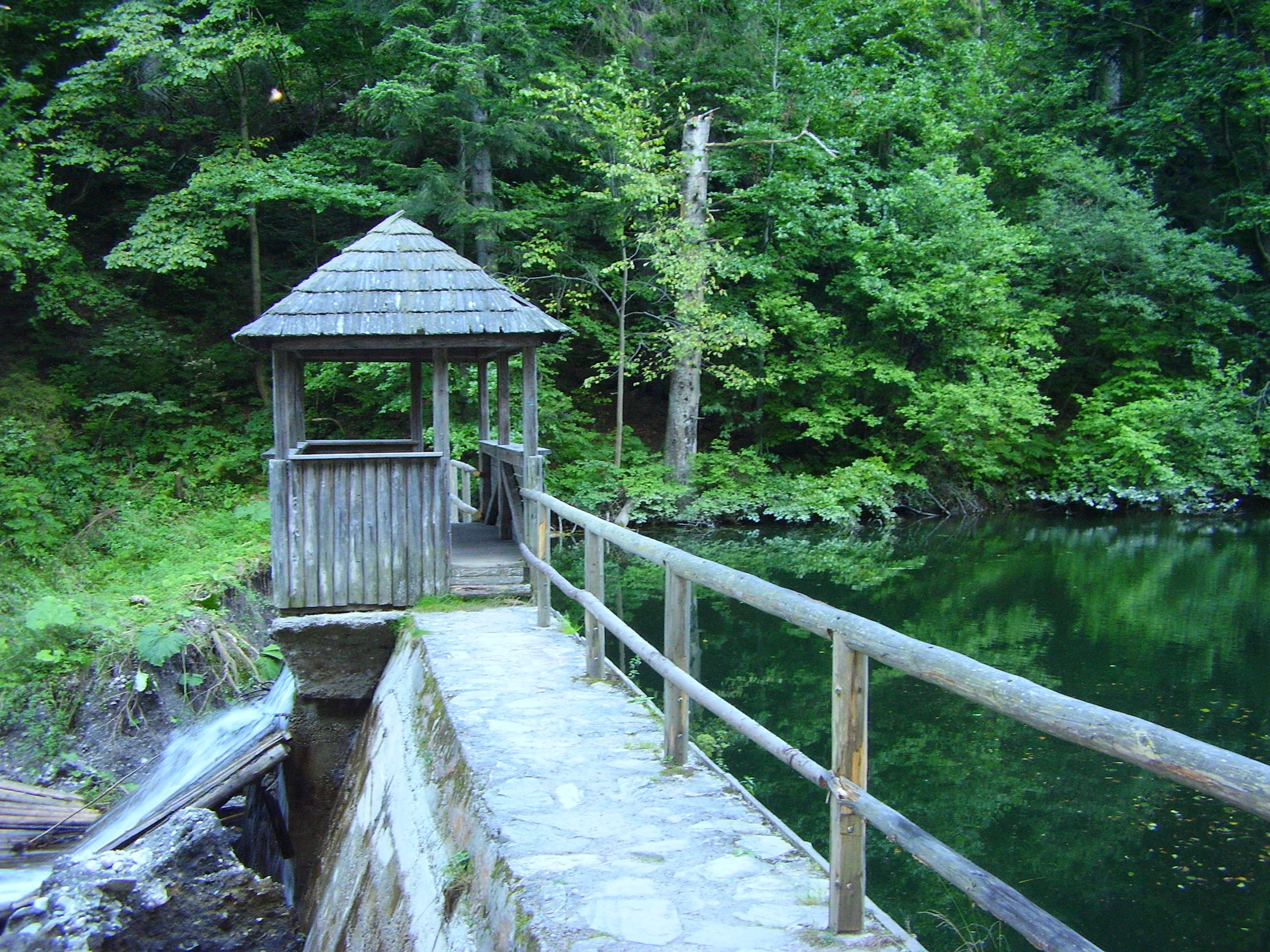 Dam of Klauzy Reservoir, with pavilion — in Slovak Paradise National Park, Slovakia.